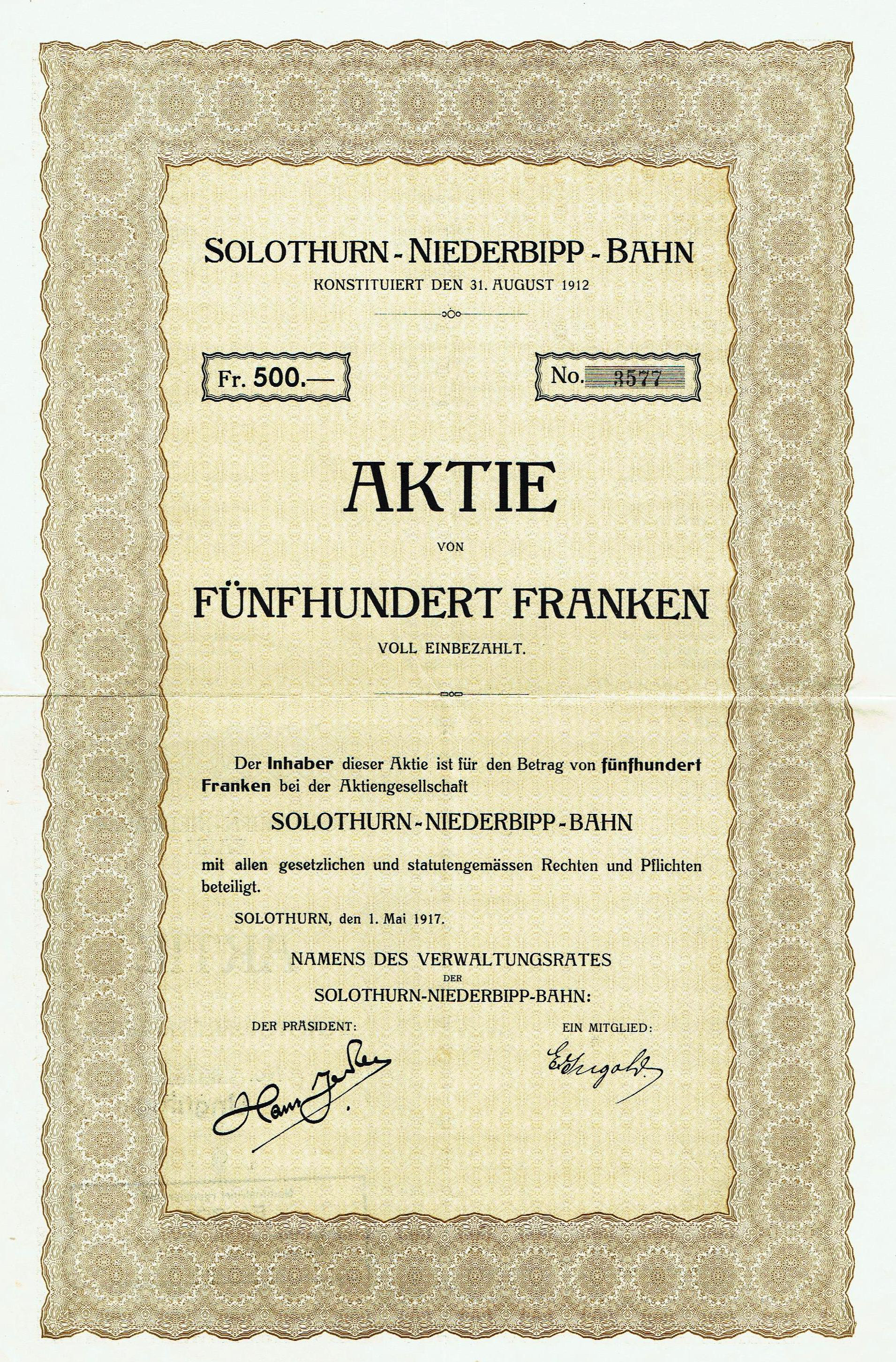 Share of the So.othurn-Niederbipp-Bahn, issued 1. May 1917